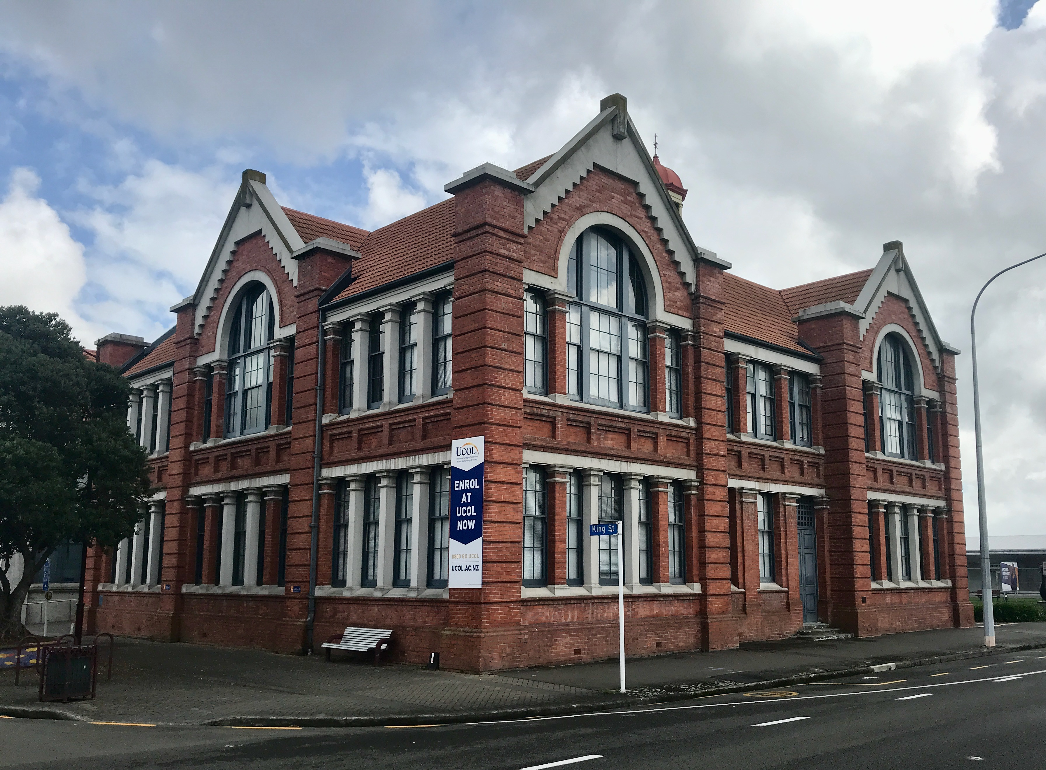 This double-fronted, two-storey building was the original building of the Palmerston North Technical School. It was designed by Frederick de Jersey Clere and built on the corner of King and Princess Streets. When the Technical School moved it was used by the Palmerston North Teacher's College and then became the home of the Palmerston North Technical Institute, now UCOL. It is now called Opie, after the first Principal of the Technical School.